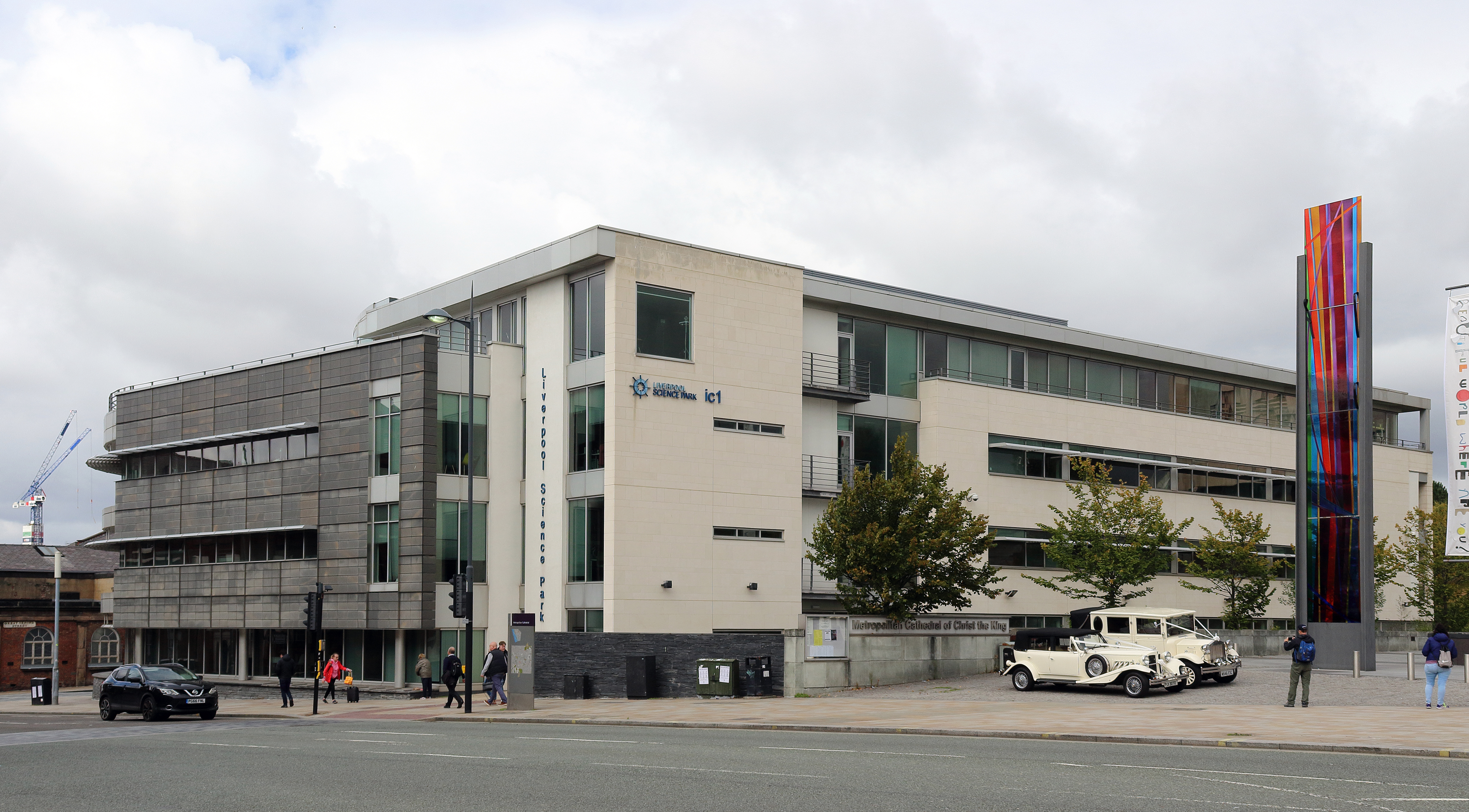 Building IC1 of Liverpool Science Park on Mount Pleasant (Metropolitan Cathedral out of shot to right). View from Liverpool Medical Institution.